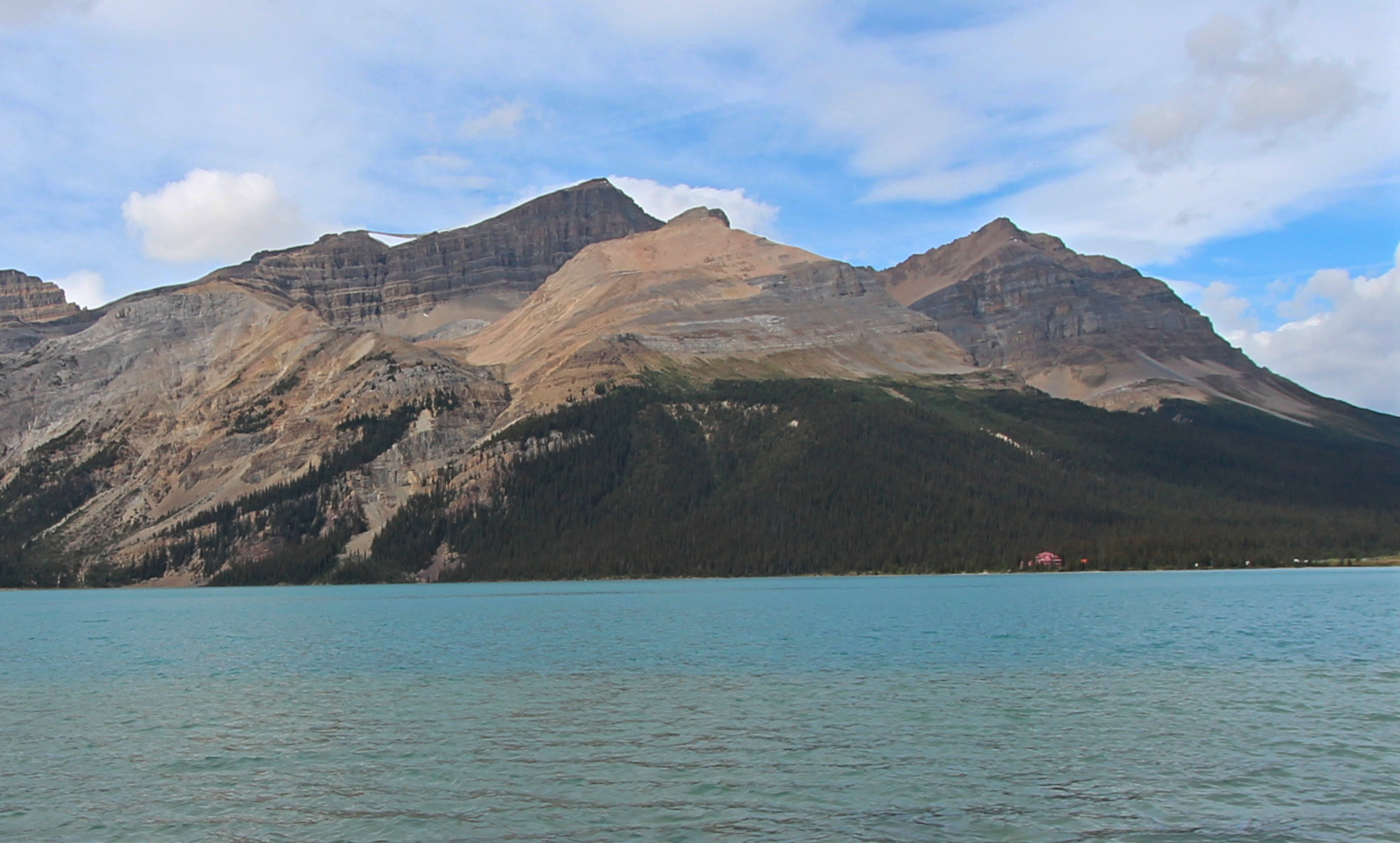 several shots of bow lake Alberta